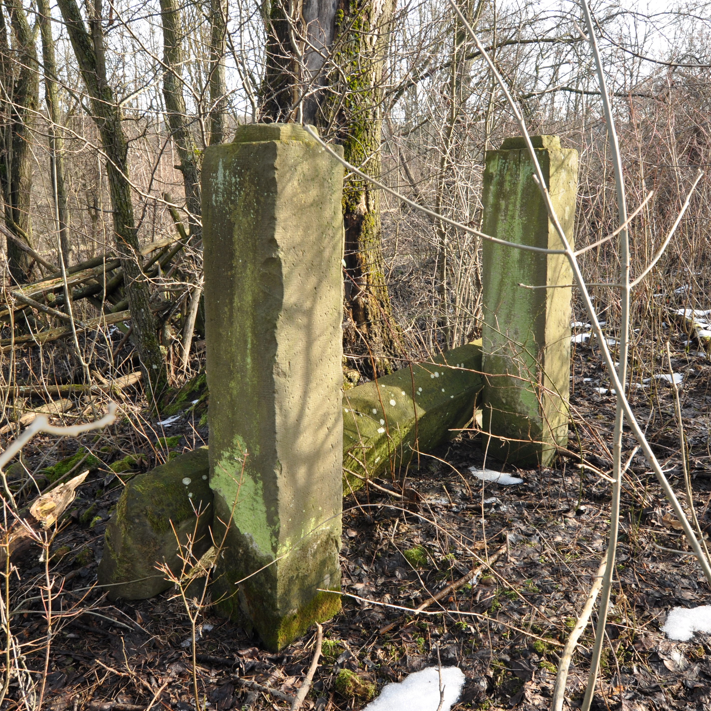 Defunct old rest bench near Markgröningen